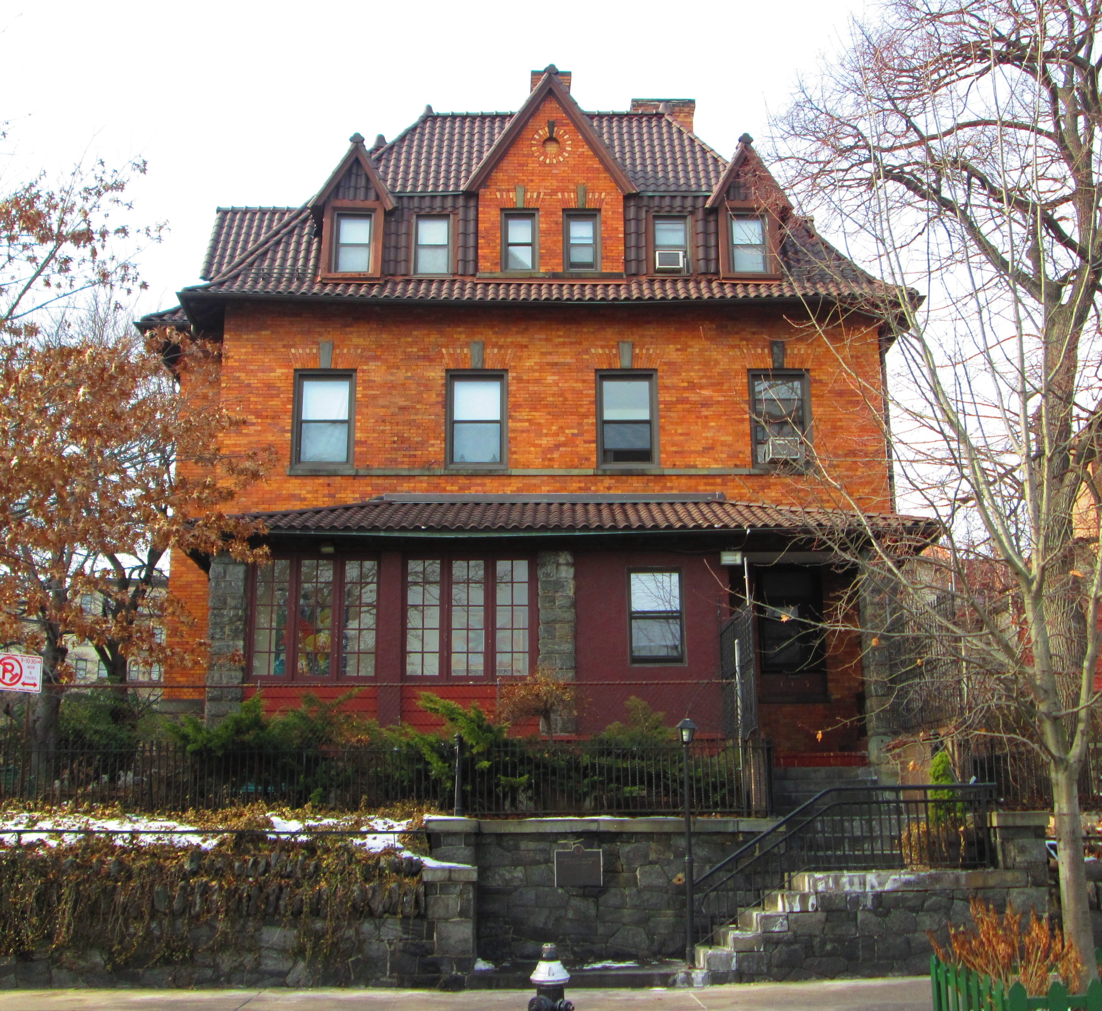 The Nicholas C. and Agnes Benziger House at 345 Edgecombe Avenue at the corner of West 150th Street in the Hamilton Heights area of the Harlme neighborhood of Manhattan, New York City, was built in 1890-91 and was designed by William Schickel in an eclectic style utilizing mostly Central European medieval forms; the exterior features gabled dormers. A brick extension, designed by Schickel & Ditmars, was added in 1899. After its use as a residence, it was variously a hospital, a nursery school and kindergarten, a hotel, and housing for the homeless. (Sources: Guide to NYC Landmarks (4th ed.) and "Nicholas C. and Agnes Benziger House Designation Report")